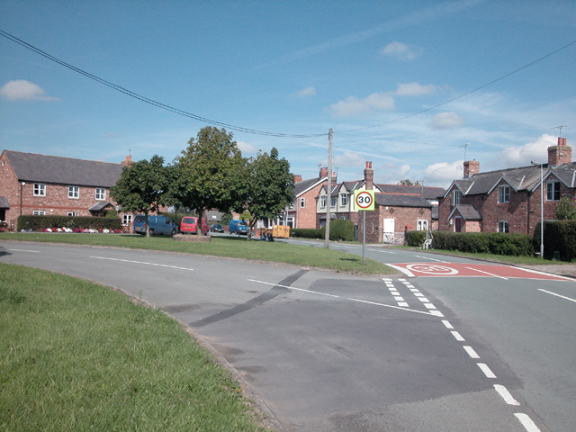 Bretton Village. Bretton is a township within the parish of Hawarden.